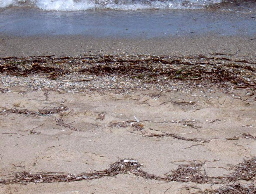 Banquette of Posidonia oceanica photographed on a Crete beach (Greece). Photo by Massimiliano Marcelli.